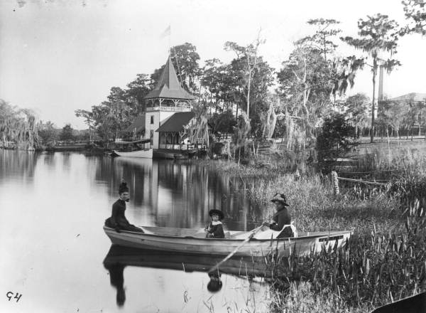 Women with child in rowboat on Lake Osceola - Winter Park, Florida Some of Winter Park's Seminole Hotel is at the far right.